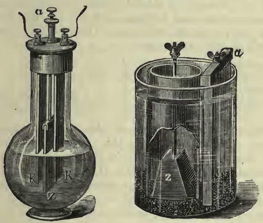 Potash Bichromate cells are sometimes made without a porous cells, on the left, and sometimes with, on the right. The plates employed are of carbon and zinc, and on the left the two outer plates are of carbon, and dip continuously into the liquid, while the middle plate is of zinc, and is only pushed down, by means of the handle a, into the liquid when it is desired that the cell shall send a current, and withdrawn as soon as the current is interrupted.